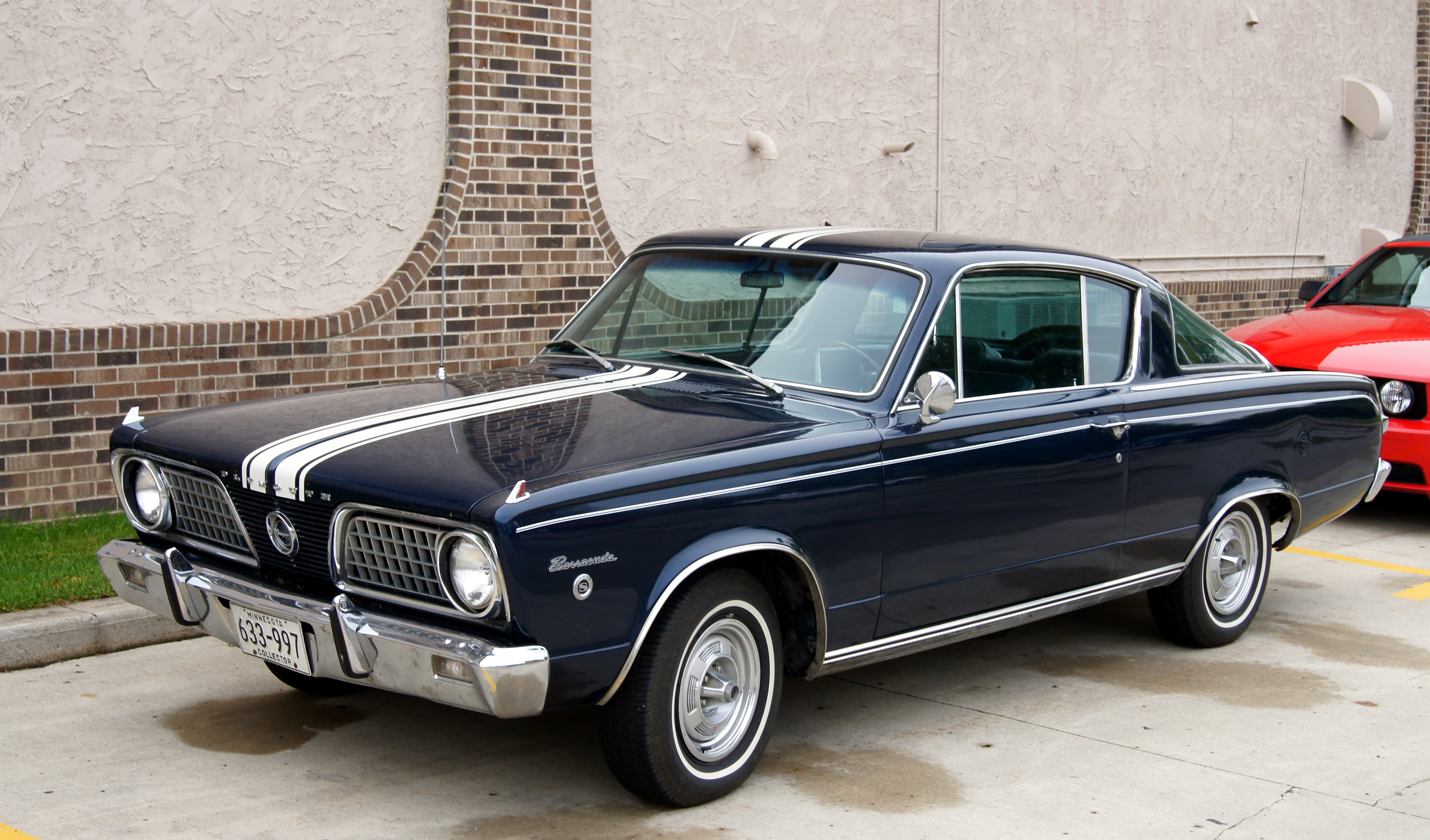 Willmar Car Club Car Buffs' Breakfast Spicer American Legion October 2013